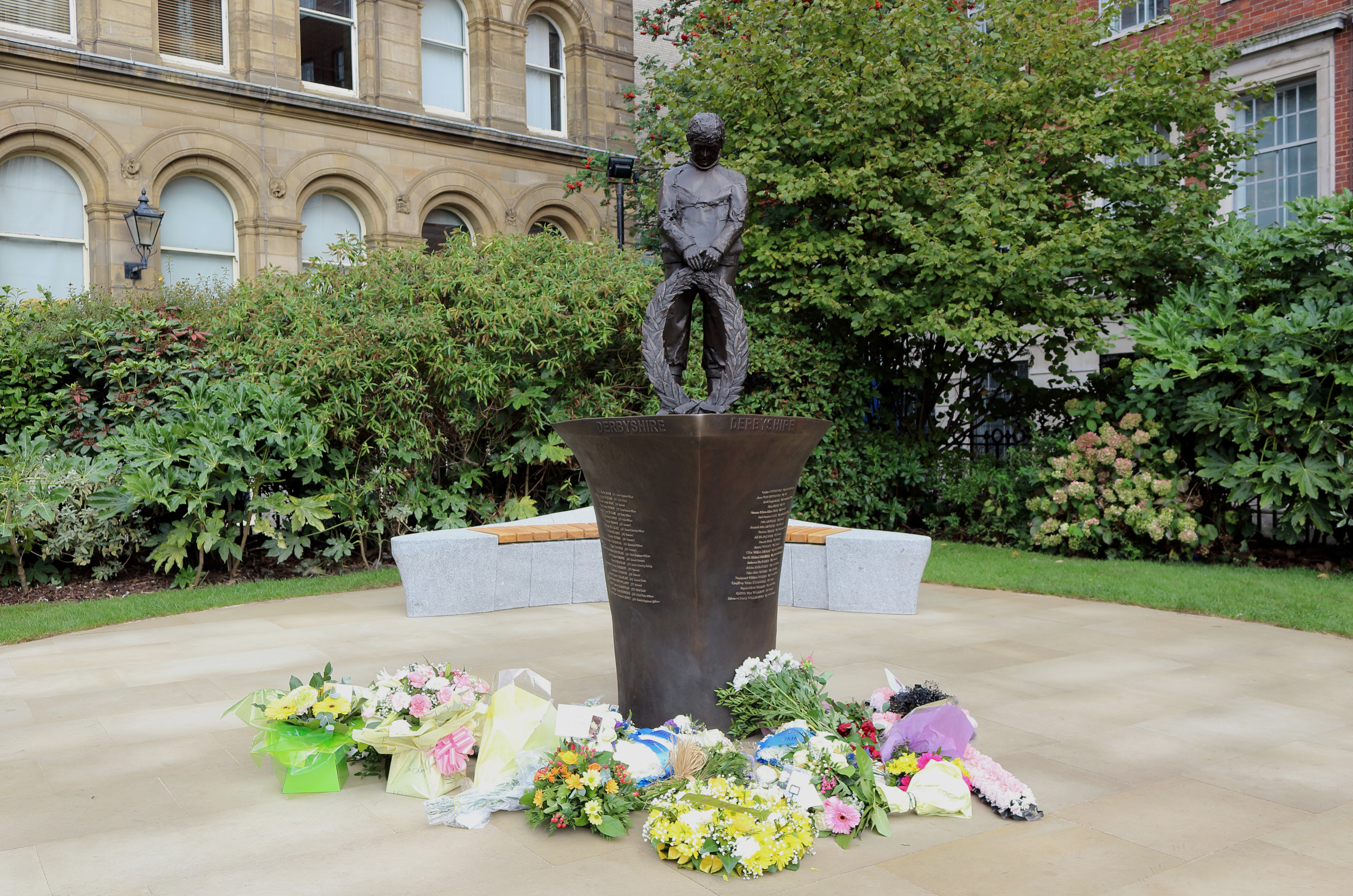 The memorial the day after dedication, with floral tributes.